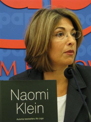 Naomi Klein (b. May 5, 1970), Canadian journalist, author and activist, best known for her book “No Logo”.